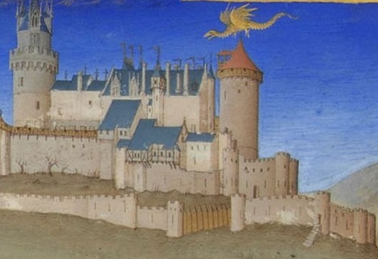 Detail from "March" of Labors of the months in Très Riches Heures du Duc de Berry. The detail depicts Melusine as a winged serpent flying over the Château de Lusignan